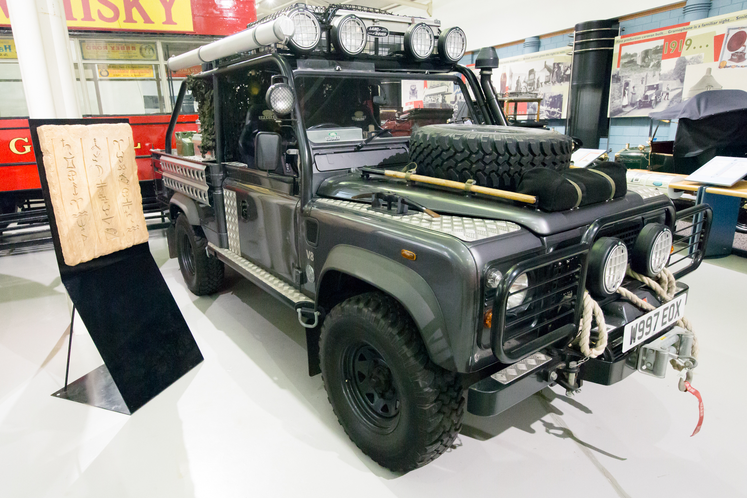 2001 Land Rover Defender 110 High Capacity Pick-up for 2001 film "Tomb Raider".